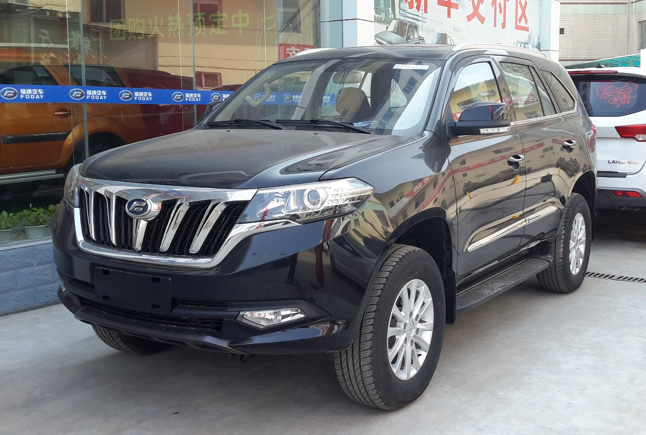 Foday Landfort photographed in Xi'an, Shaanxi province, China.